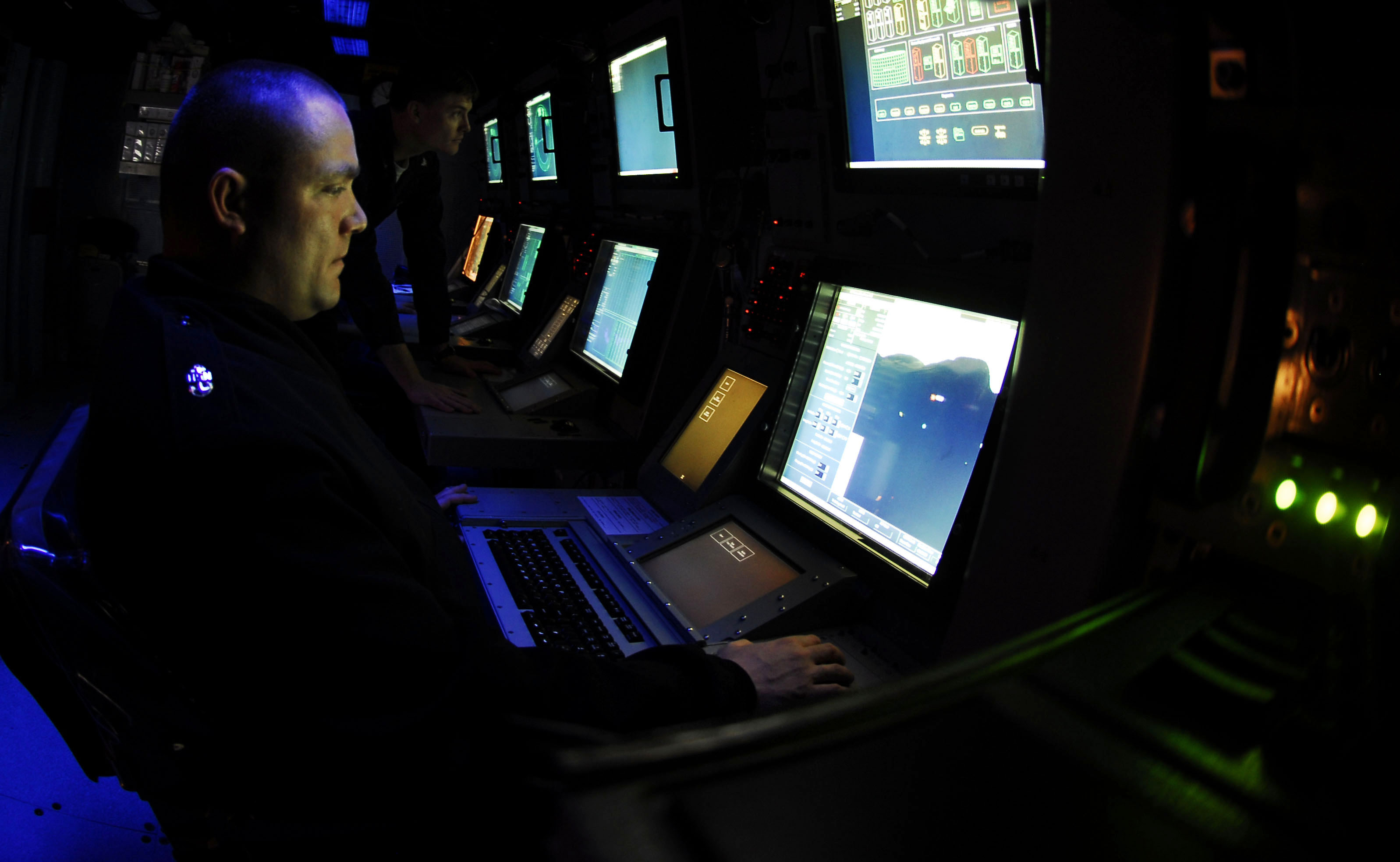 PACIFIC OCEAN April 20, 2009) Chief Sonar Technician (Surface) Gary Hillman, from El Dorado, Ill., generates an under-sea warfare training scenario in the sonar control room aboard the Arleigh Burke-class guided-missile destroyer USS Kidd (DDG 100). Kidd is part of the John C. Stennis Carrier Strike Group and is on a scheduled six-month deployment to the western Pacific Ocean. (U.S. Navy photo by Mass Communication Specialist 3rd Class Josue L. Escobosa/Released)